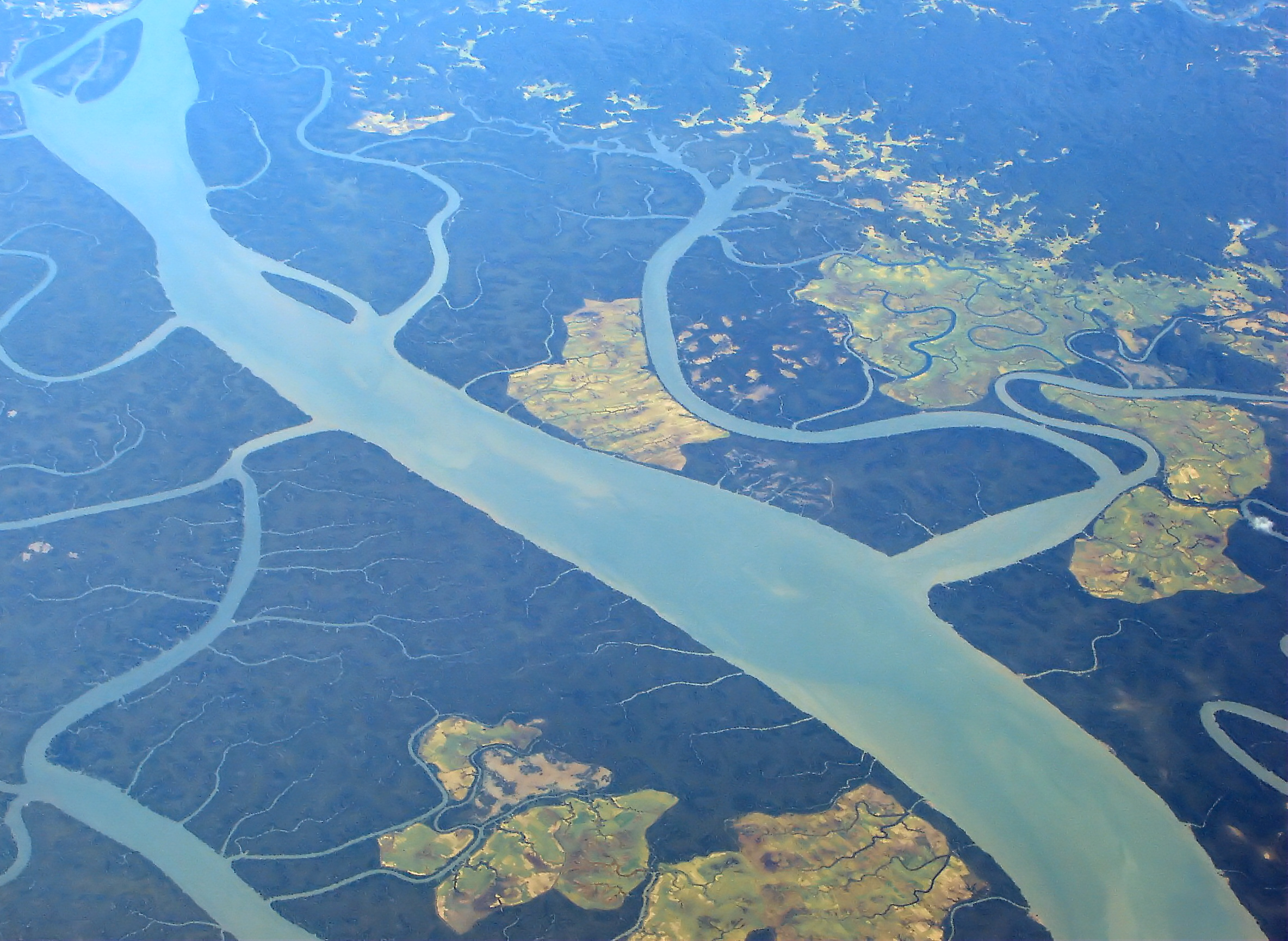 The Irrawaddy River photographed from a commercial Bangkok-bound flight from Europe. The river flows slowly and reaches widely into the surrounding landscape.